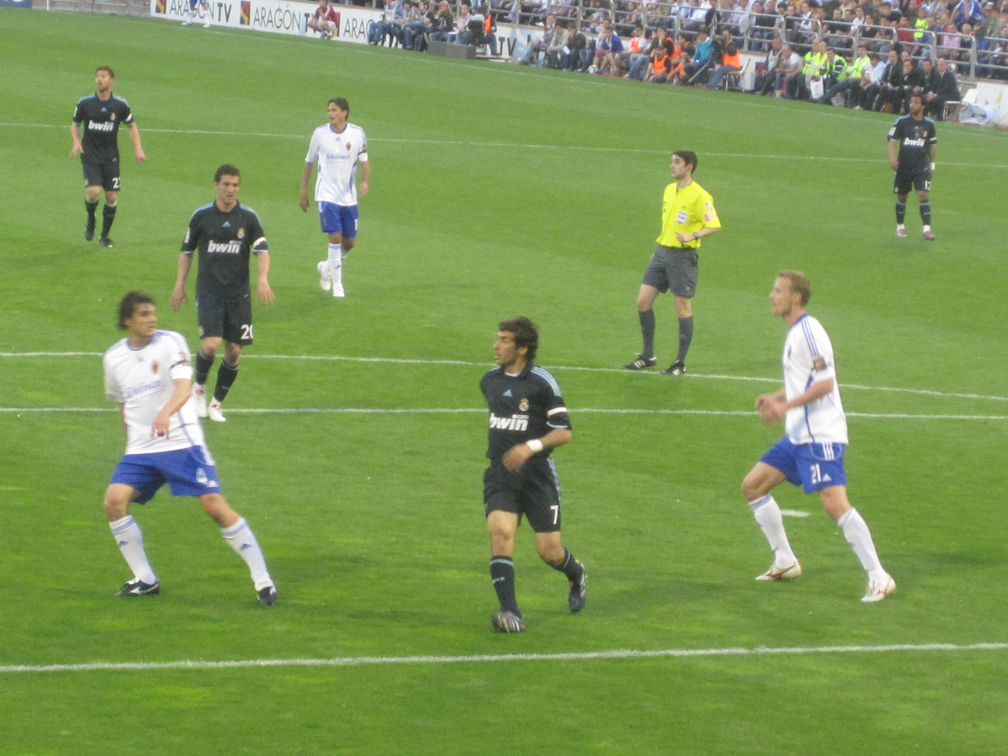 Raúl González Blanco